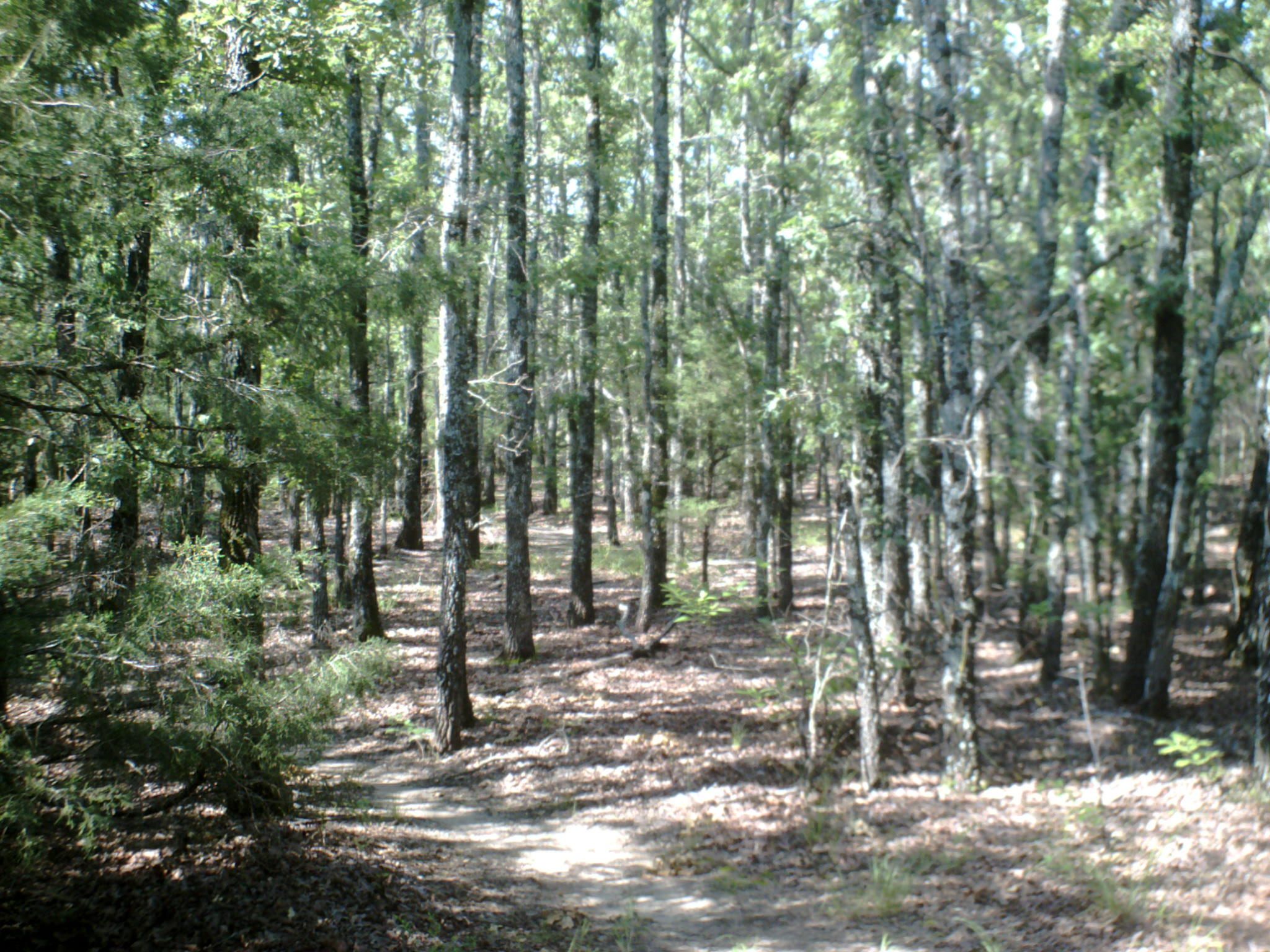 Woodland hiking area, May 2007